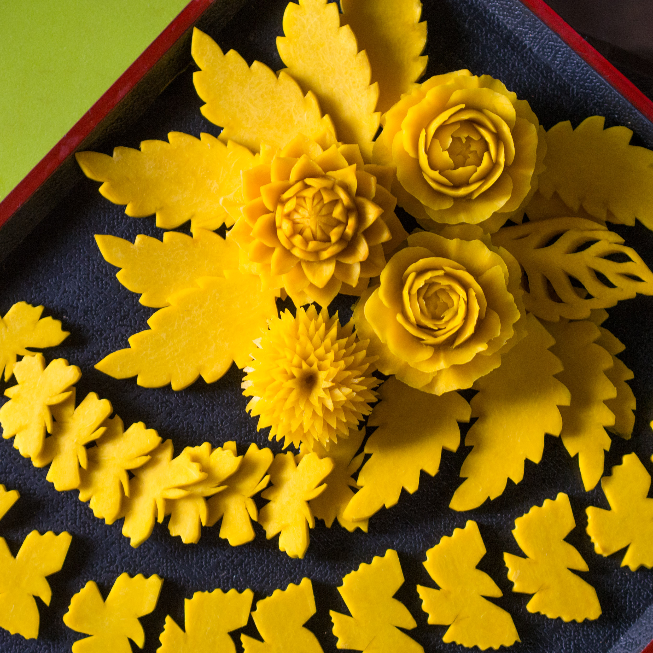 Thai vegetable carving, here using pumpkin.